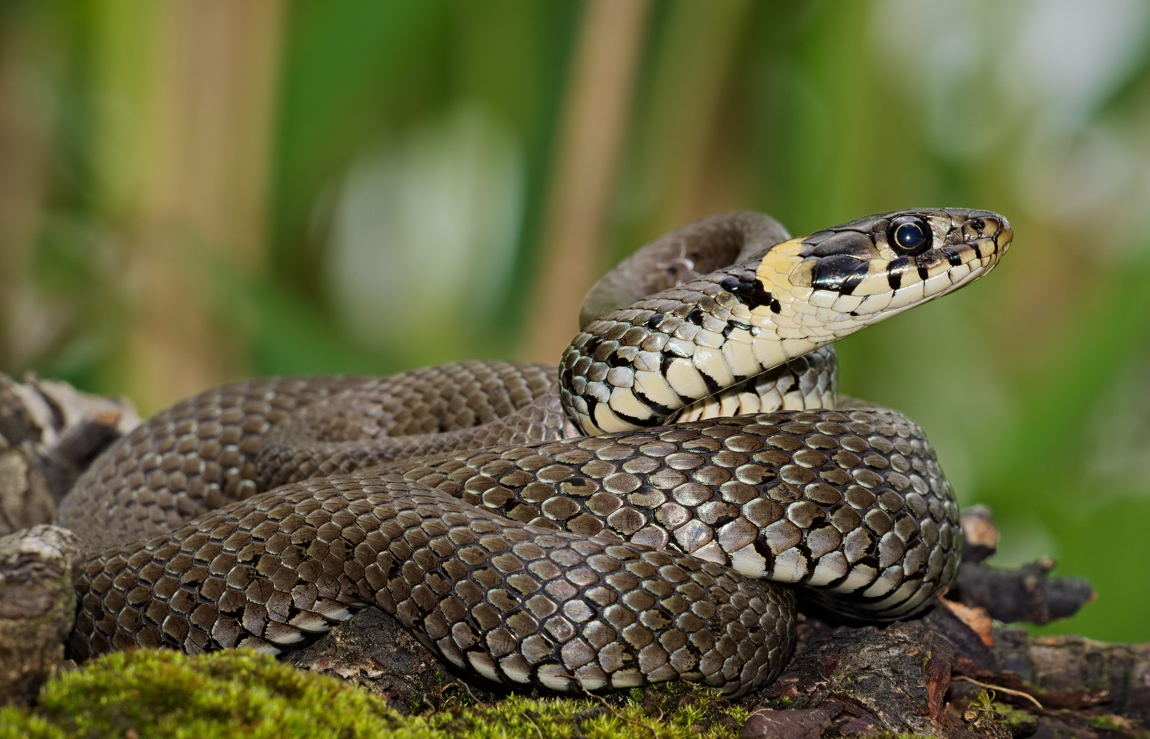 Grass snake - Natrix natrix. Taken by the Tiefen See or Grubensee, Storkow (Mark), Brandenburg, Germany.